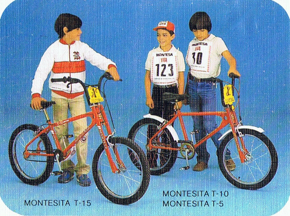 Official Montesita brochure (1981). There is a T-15 (left) and a T-10 (right). The kid at left is Ot Pi at age 11.